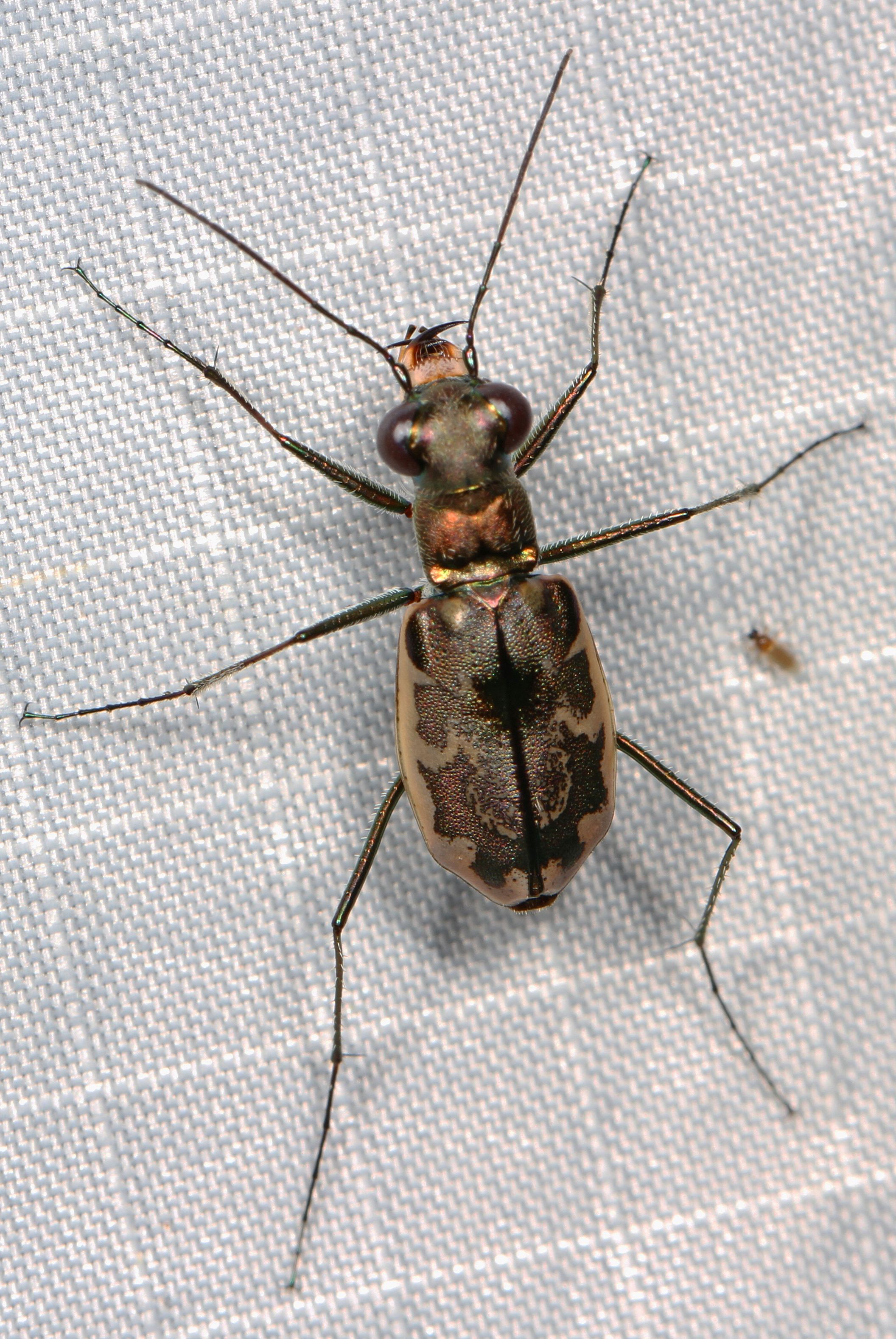 Margined Tiger Beetle - Ellipsoptera marginata.